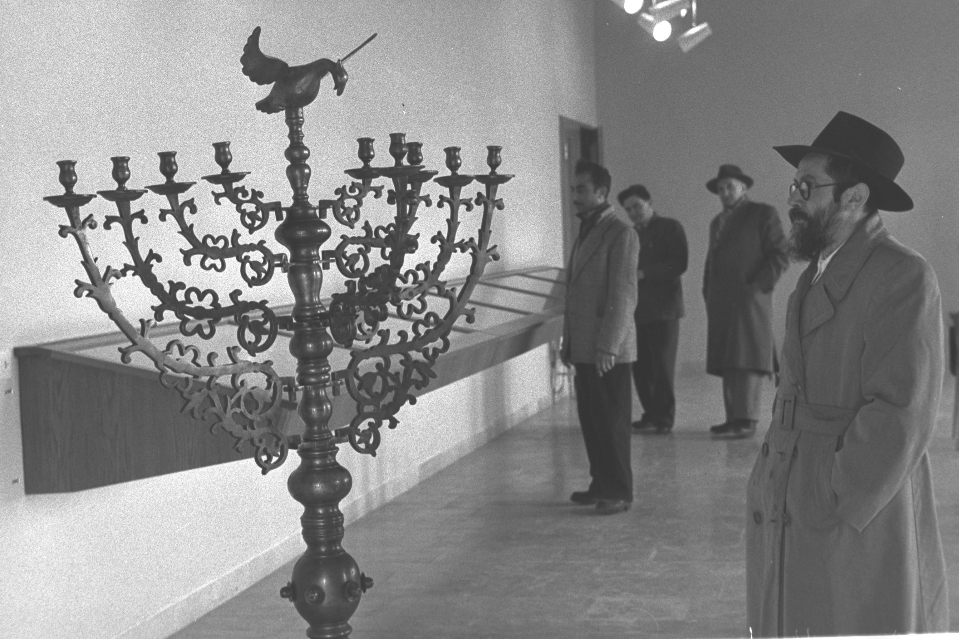 An 18th century bronze channukia (Channuka lamp) From poland on display at a museum in Heichal Shlomo (03/03/1959).